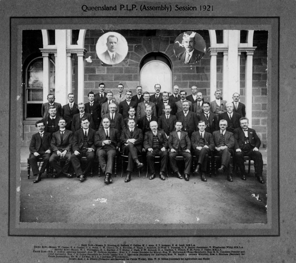 Queensland Parliamentary Labor Party (Assembly) Session, 1921. Portrait of the Queensland P.L.P. (Parliamentary Labor Party) taken in the grounds of Parliament House in 1921. Back Row: Messrs. D. Riordan, G. Pollock, C. Collins, H. J. Ryan, F. T. Brennan, E. M. Land, MM.L.A. Third Row: Messrs. W. Cooper, F. A. Cooper, T. A. Foley, C. W. Conroy, M. A. Ferricks, P. Pease, J. Stopford, D. Weir, T. Dunstan, G. P. Barber (Secretary), V. Winstanley (Whip), MM.L.A. Second Row: Messrs. W. J. Wellington, H. L. Hartley, J. T. Gilday, J. Dash, F. W. Bulcock, D. A. Gledson, T. Wilson, F.M. Forde, J. Payne, MM.L.A. Front Row: Hon. J. Mullan (Attorney General), Hon. W. Bertram (Speaker), Hon. A. J. Jones (Minister for Mines), Hon. W. McCormack (Hon. Secretary), Hon. E. G. Theodore (Premier and Chief Secretary), Hon. J. H. Coyne (Secretary for Public Lands), Hon. J. Larcombe (Secretary for Railways), Hon. W. Smith (Honorary Minister), Hon, J. Huxham (Secretary for Public Instruction), Mr. M. J. Kirwan, M.L.A. (Chairman of Committee). Inset: Hon. J. A. Fihelly (Treasurer and Secretary for Public Works), Hon. W. N. Gillies (Secretary for Agriculture and Stock).